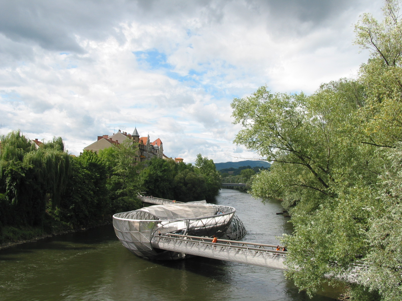 Murinsel by Vito Acconci in Graz, Styria, Austria